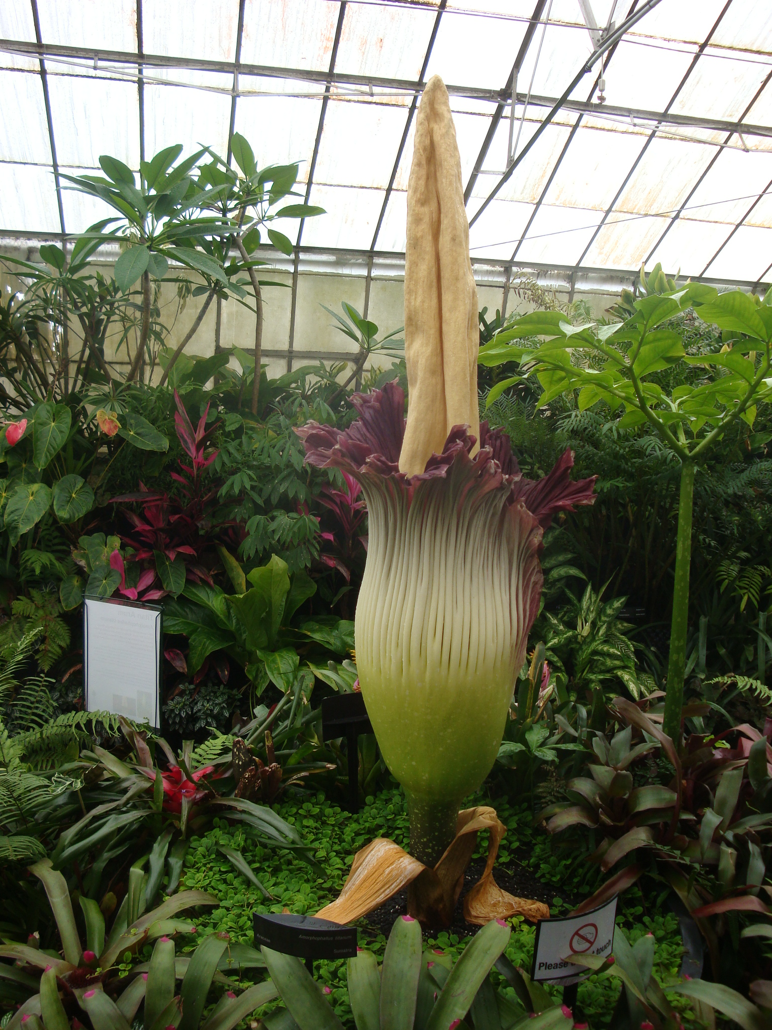 Titan Arum, Royal Botanic Gardens, Melbourne, Victoria, Australia